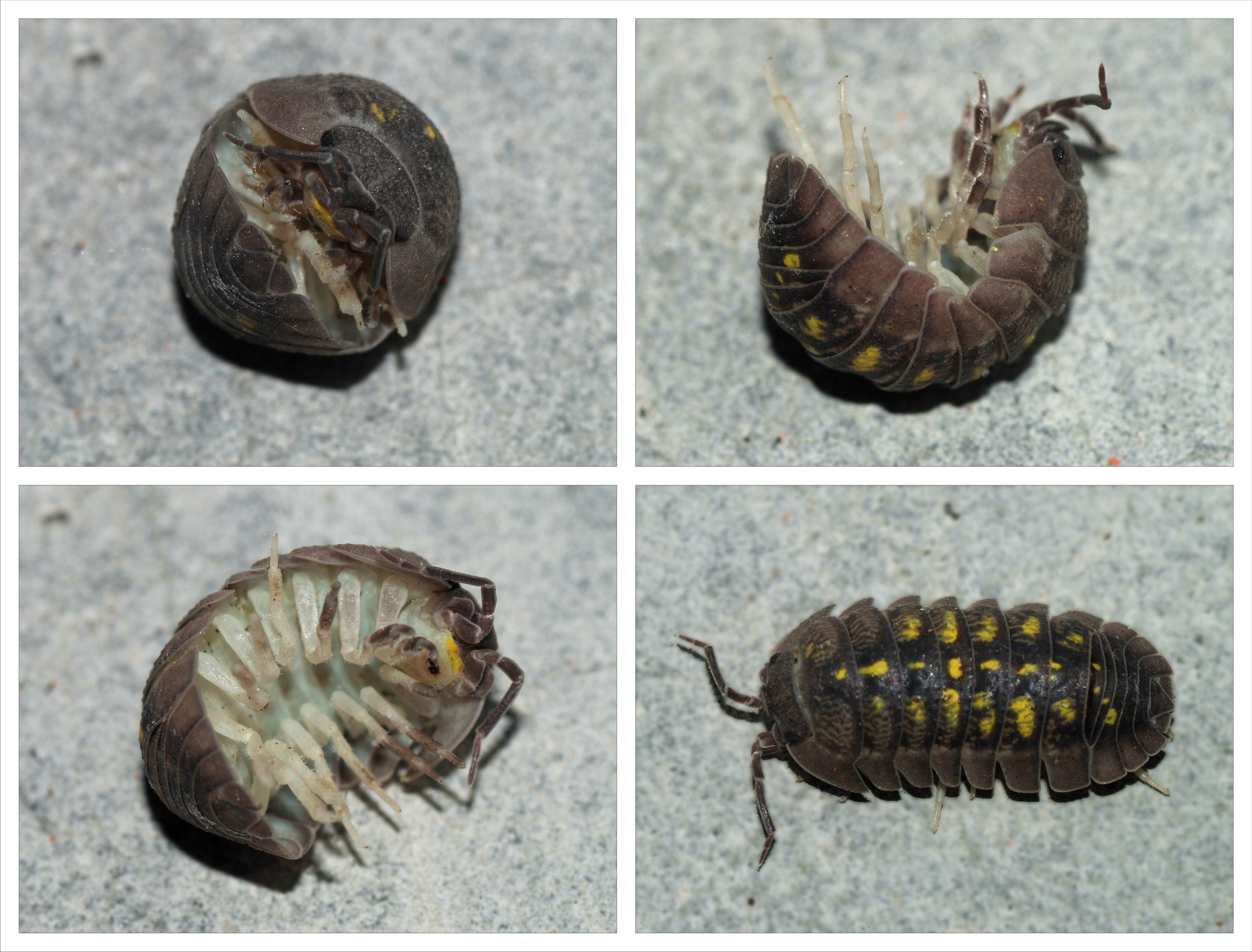 A fairly common mediterranean pill woodlouse of species Armadillidium granulatum.Pill woodlice are small land-living crustaceans of the order Isopoda, with seven pairs of legs, which roll-up in a almost perfect spherical shape when disturbed. The picture shows a specimen returning to its normal position after the danger has passed.